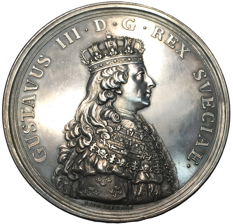 Coronation coin from the coronation of Gustavus III in 1772